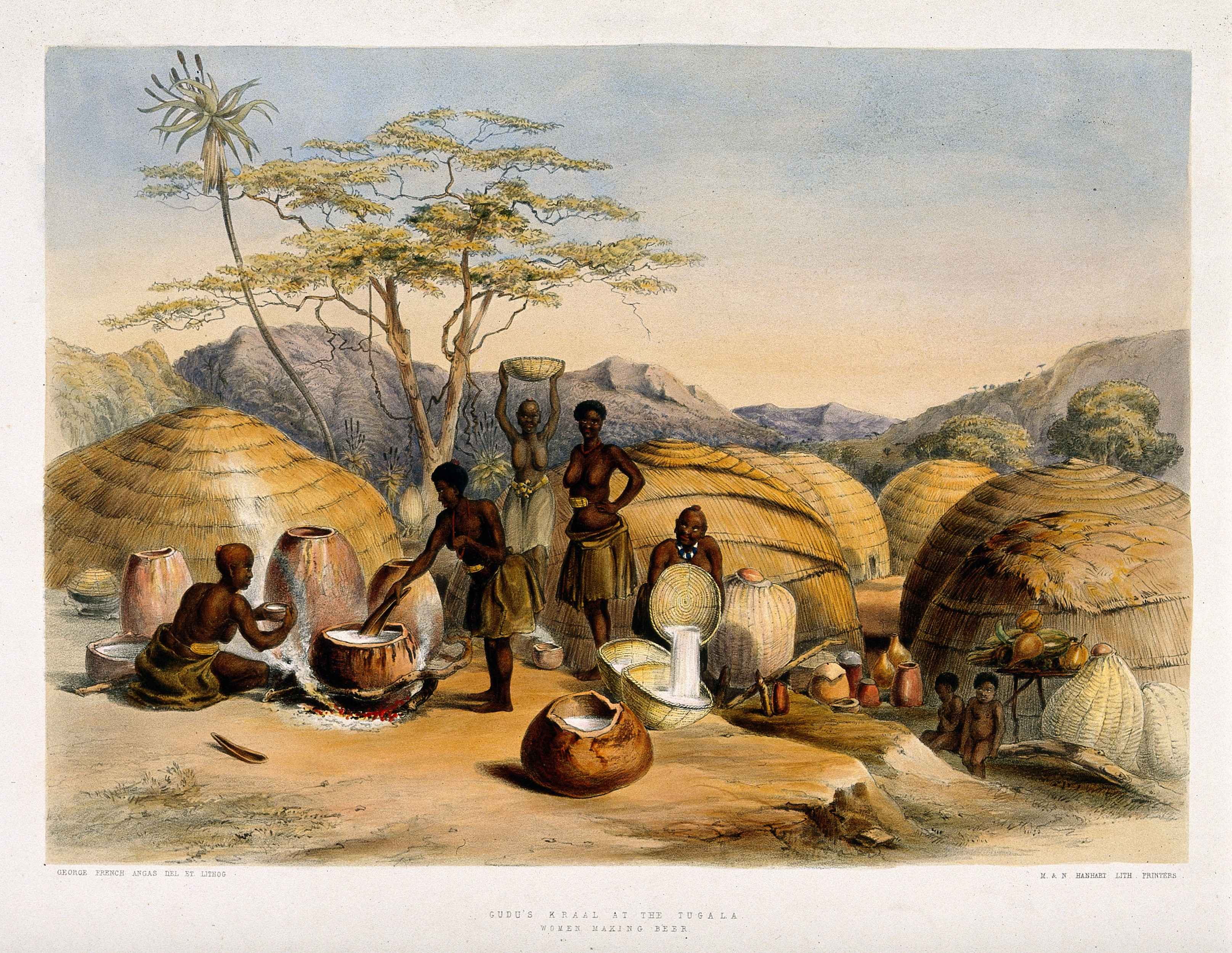 Native South African women brewing beer by their huts. Coloured lithograph by G-F Angas after himself. Iconographic Collections Keywords: M. & N. Hanhart.; brewing; George-French Angas